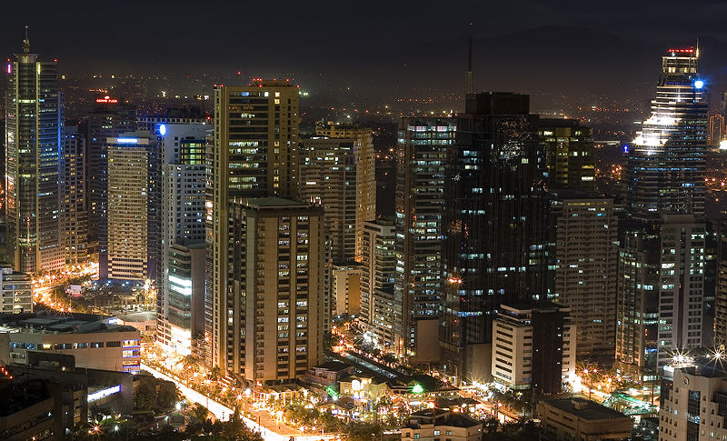 Ortigas Center